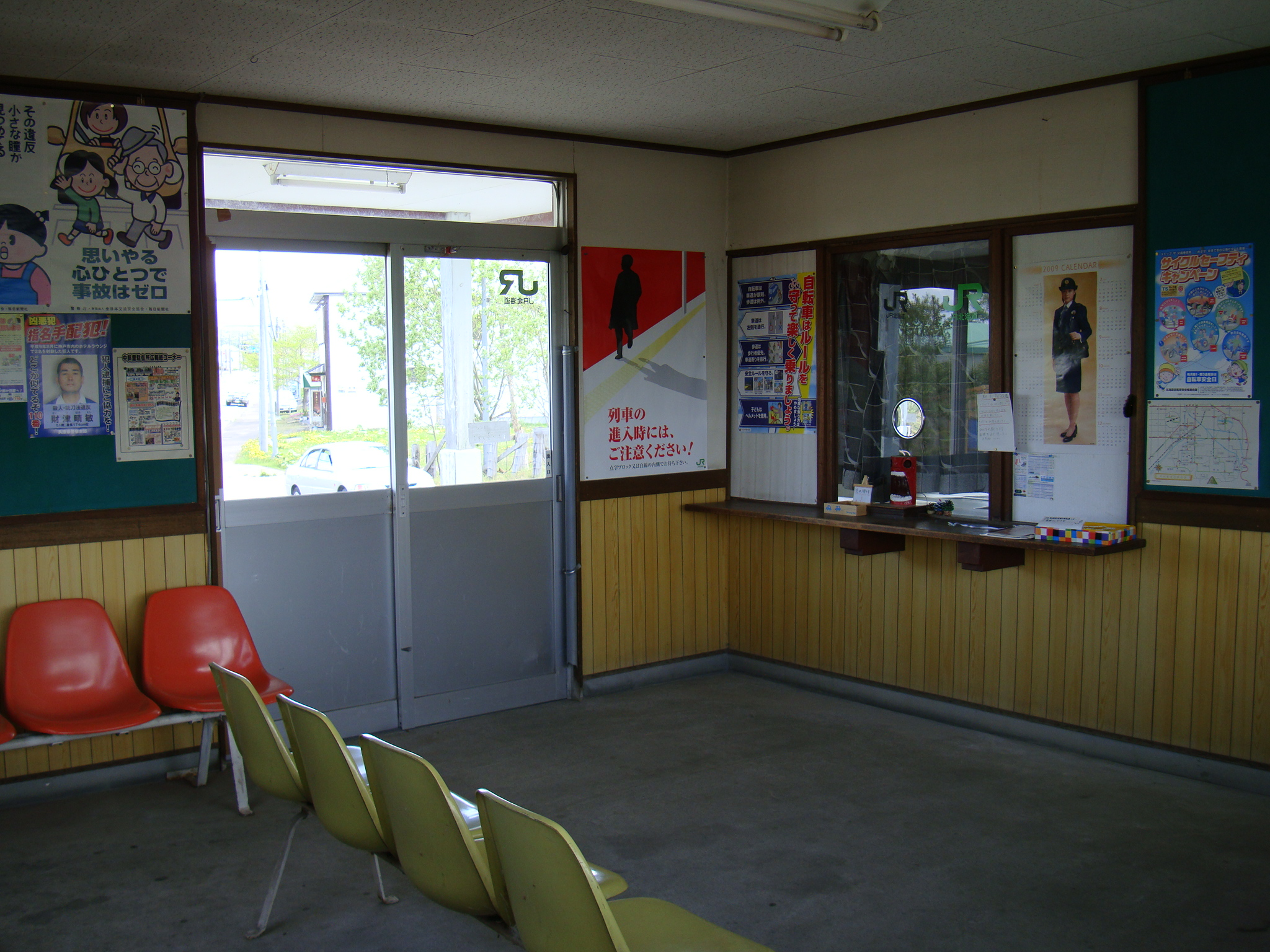 Naka-Shari Station